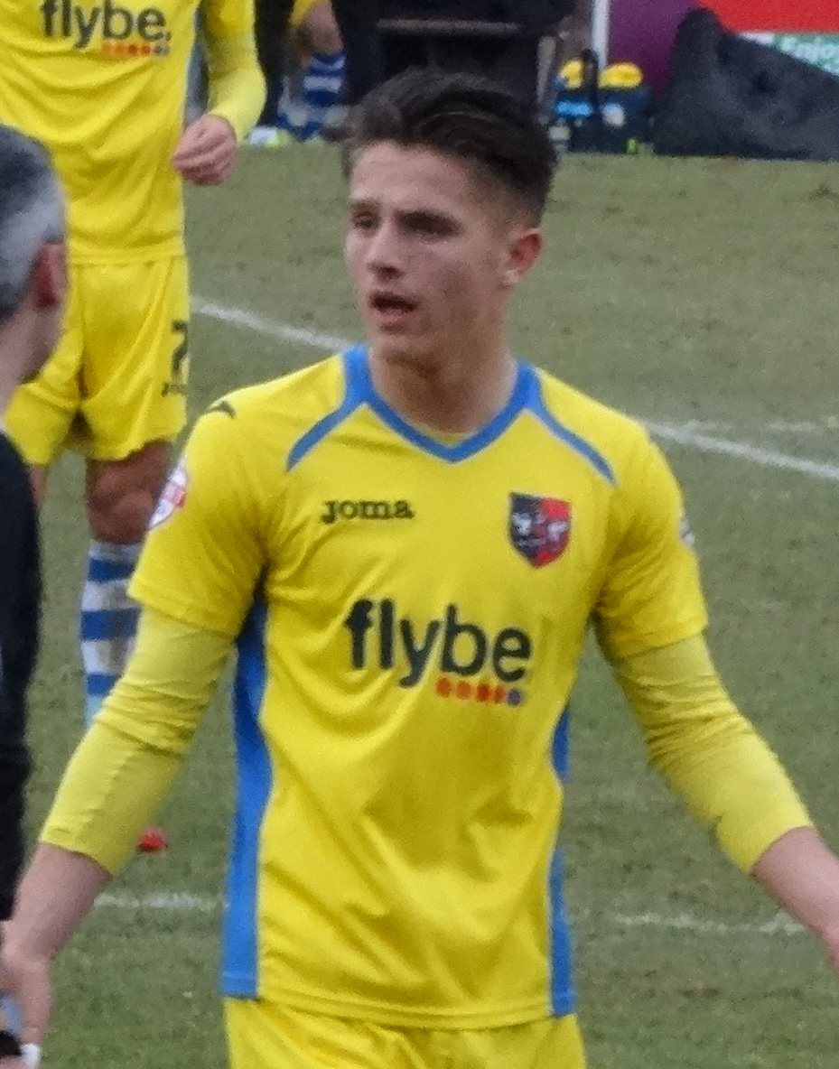 Tom Nichols playing for Exeter City against York City at Bootham Crescent, York on 28 February 2015